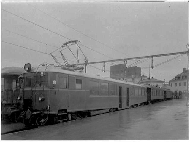 NSB Class 65a at Oslo West Station